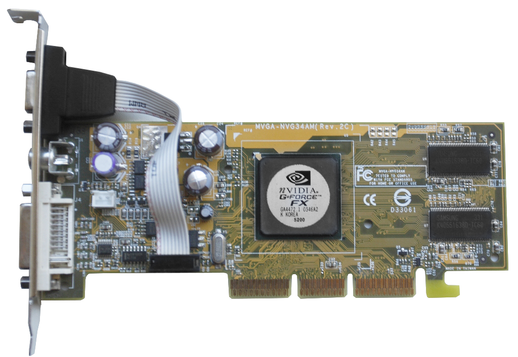 PixelView GeForce FX 5200 graphics card MVGA-NVG34AM without cooling. AGP Version